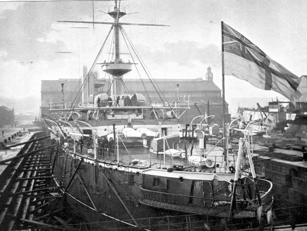 Photograph showing stern of British battleship HMS Empress of India in drydock at Chatham. Twin 13.5 inch guns mounted on barbette are visible.